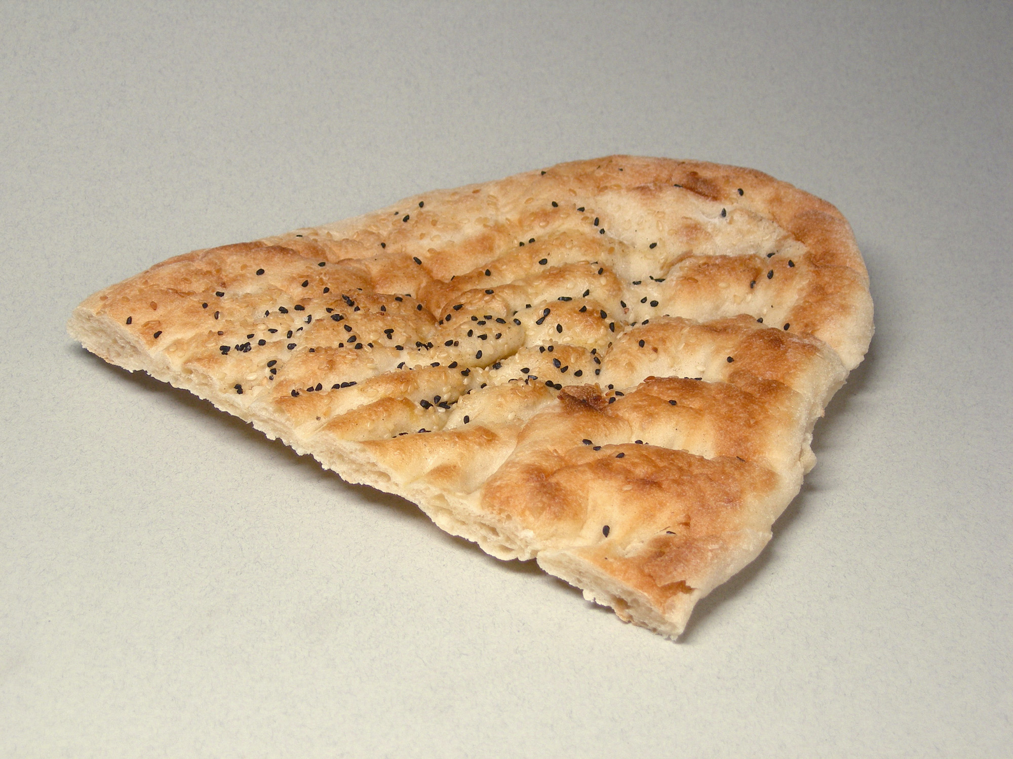 Turkish flatbread